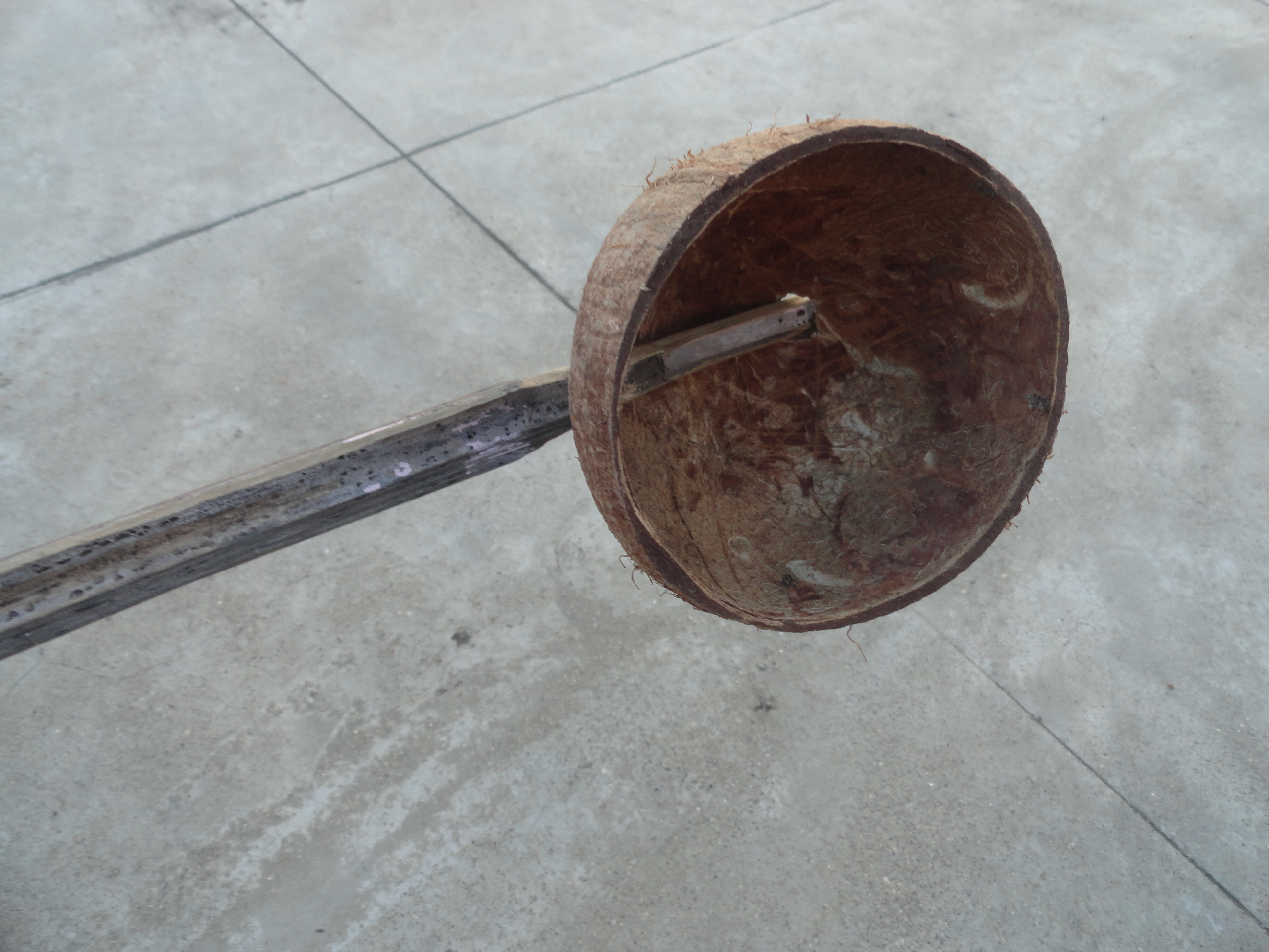 అబప లోపలి భాగం. కొబ్బరి చిప్పతో చేసినది.